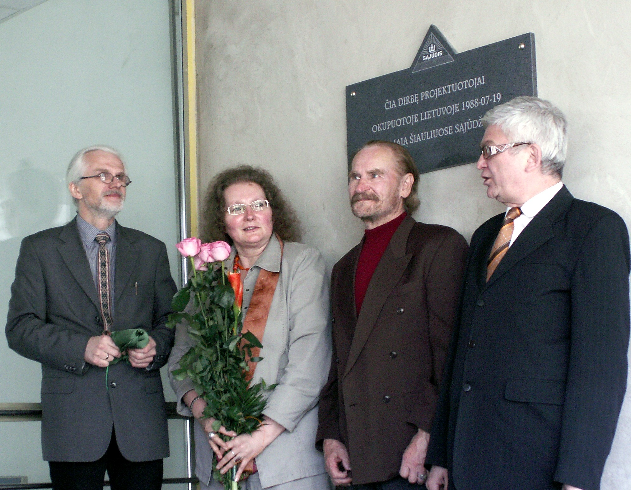 Members of Šiaulių sąjūdis Virgilijus Kačinskas, Irena Vasinauskaitė, Stanislovas Bronušas, Algirdas Urbanavičius in 2008